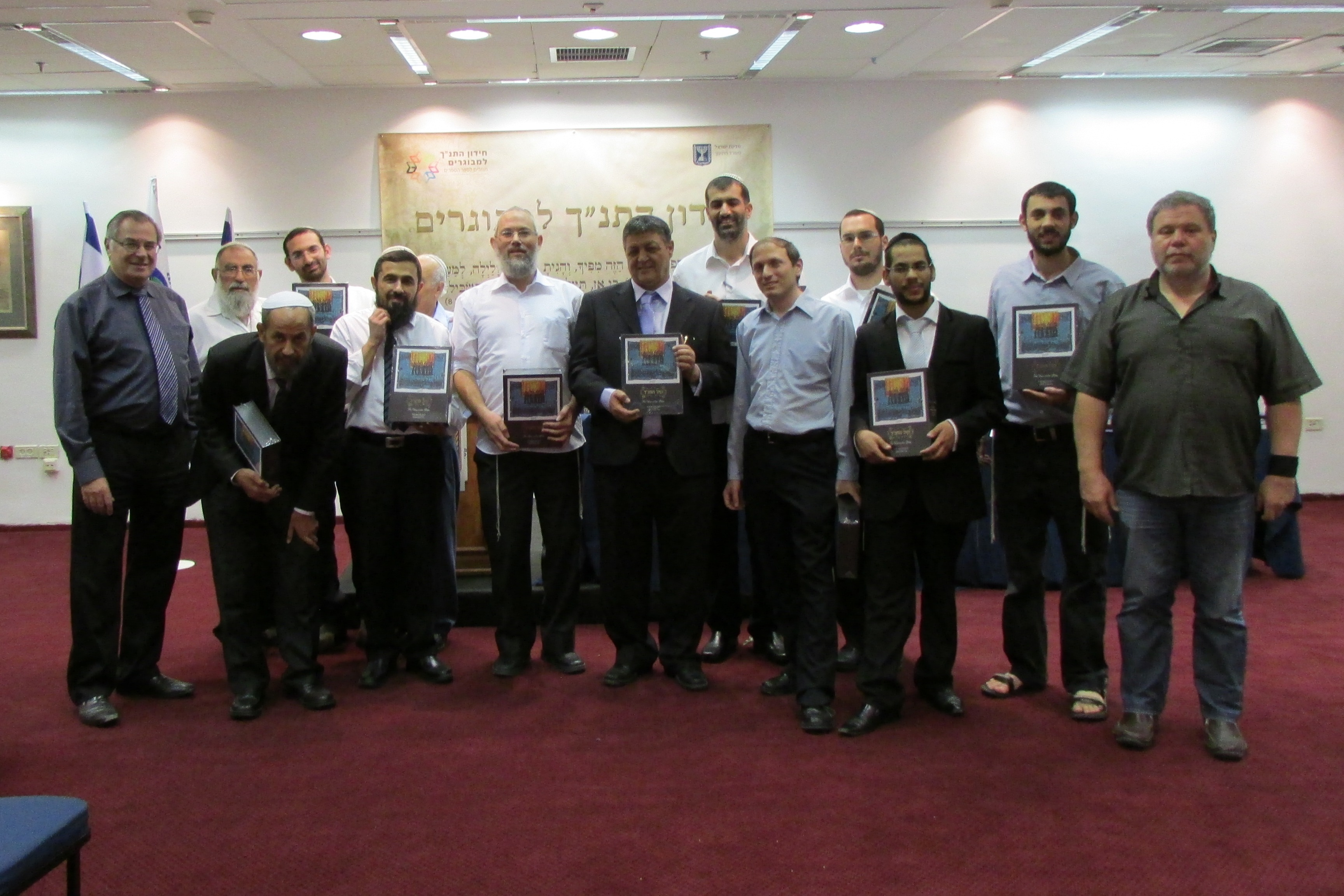 Dan Kaner (Left) with the paticipants of the Israel bible quiz 2013, who received from him a recording of the bible.